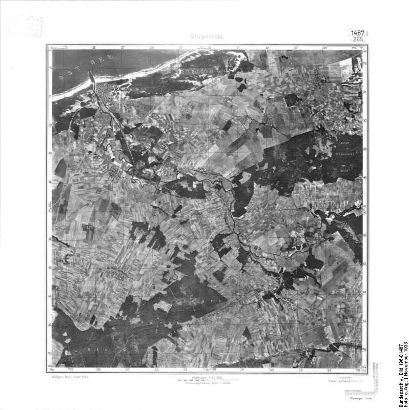 Stolpmünde Information added by Wikimedia users.